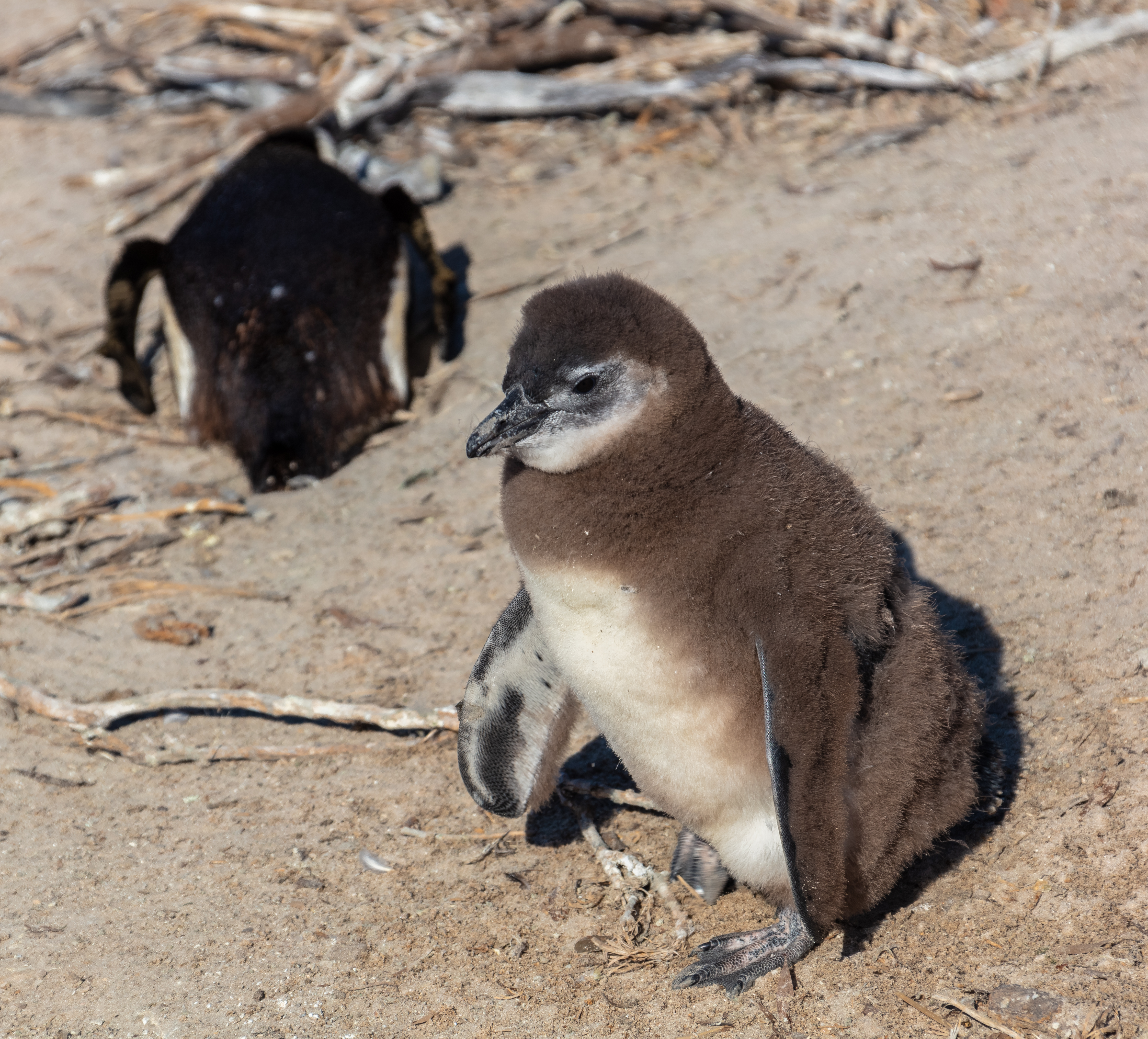 Juvenile african penguin (Spheniscus demersus), Boulders Beach, Simon's Town, South Africa